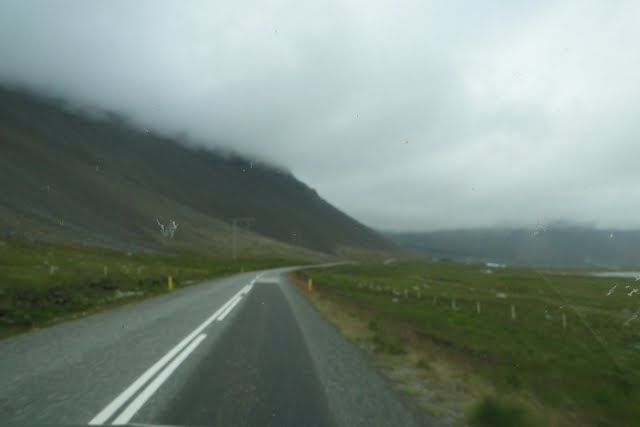 Route 1, Iceland